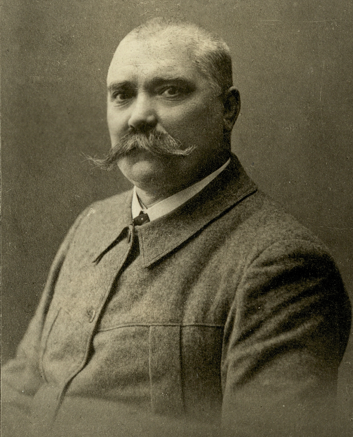 Franc Grafenauer (1860-1935)